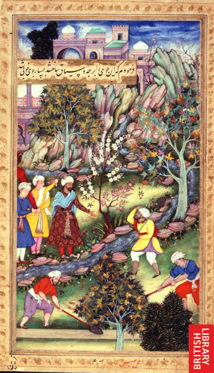 The "Memoirs of Babur" or Baburnama are the work of the great-great-great-grandson of Timur (Tamerlane), Zahiruddin Muhammad Babur (1483-1530). The Baburnama tells the tale of the prince's struggle first to assert and defend his claim to the throne of Samarkand and the region of the Fergana Valley. After being driven out of Samarkand in 1501 by the Uzbek Shaibanids, he ultimately sought greener pastures, first in Kabul and then in northern India, where his descendants were the Moghul (Mughal) dynasty ruling in Delhi until 1858. The miniatures are from an illustrated copy of the Baburnama prepared for the author's grandson, the Mughal Emperor Akbar. It is worth remembering that the miniatures reflect the culture of the court at Delhi; hence, for example, the architecture of Central Asian cities resembles the architecture of Mughal India. Nonetheless, these illustrations are important as evidence of the tradition of exquisite miniature painting which developed at the court of Timur and his successors. Timurid miniatures are among the greatest artistic achievements of the Islamic world in the fifteenth and sixteenth centuries. Illustrations of Mughals from the Baburnama